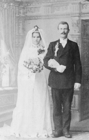 Picture of marriage of Olga Andersson and Lars Petter Brännäs. Parents of Tauno Palo.